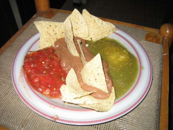 A simplified version of Huevos Divorciados.